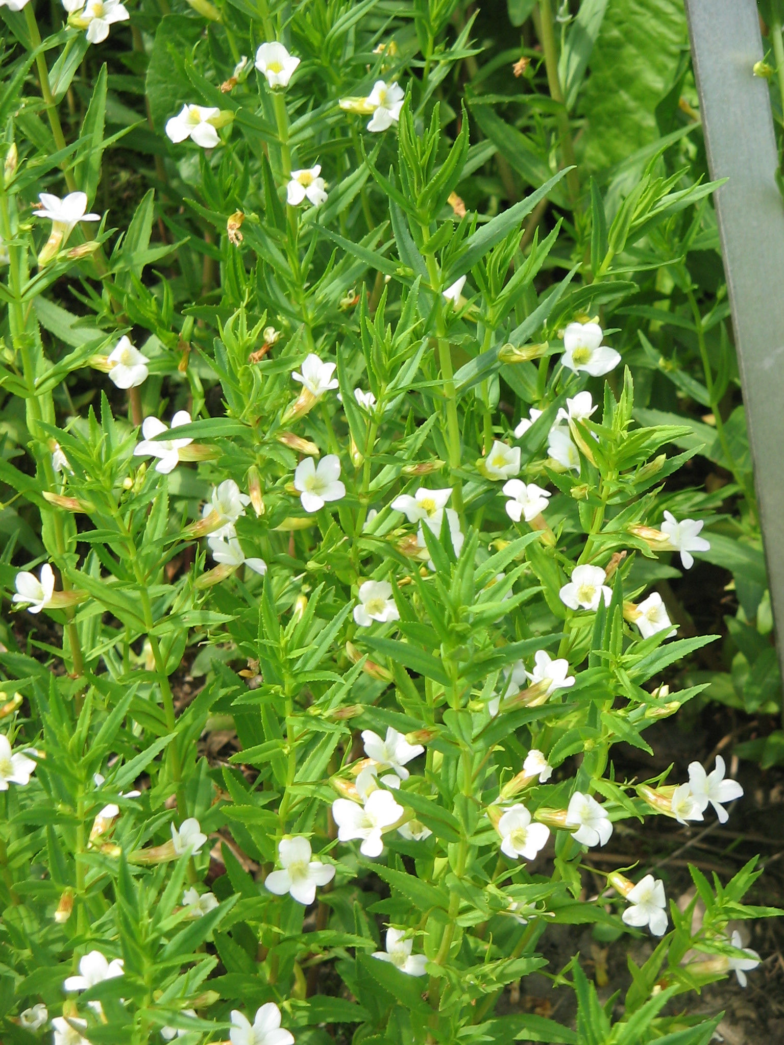 Gratiola officinalis